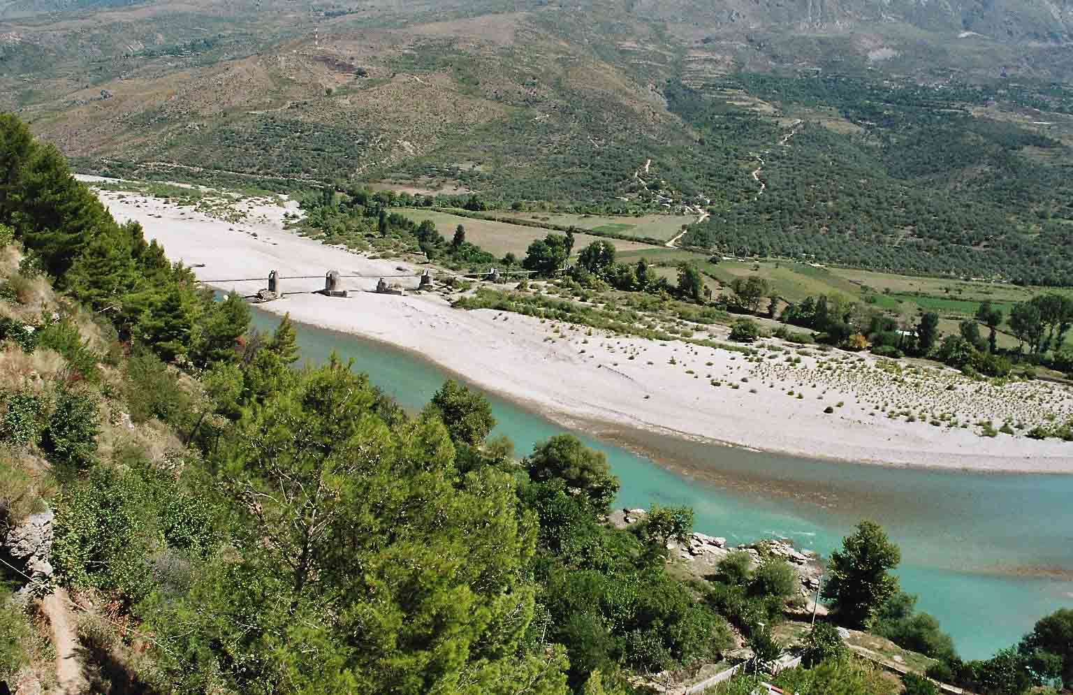 Vjosa river near Tepelena in Albania